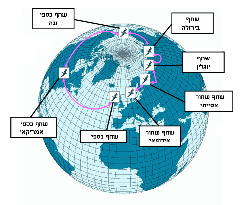 Ring Species of seagulls